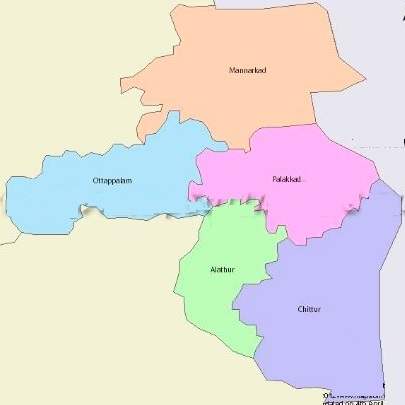 SUNIL Palakkad